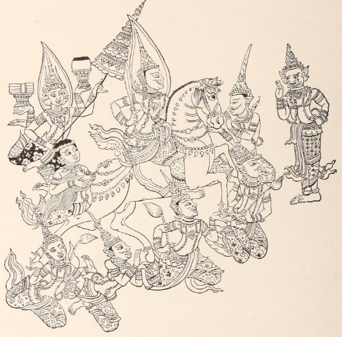 Great Departure of Gautama Buddha. Included in Grunweedel, A. (1901), "Buddhist Art in India". London: Bernard Quaritch, pp.102-103. The description says: "The Bodhisattva leaving his father's palace ... an outline sketch of a beautifully finished, though mechanically composed representation from the Siamese Trai-p'um book, painted for King P'aya-tak about 1780 AD. Indra leads the horse, four yakshas bear his feet, Channa holds firmly by the tail, Brahma (of Hindu type) follows with an umbrella, the Vedas and drinking vessel. Before the group stands Mara represented as the prince of demons.